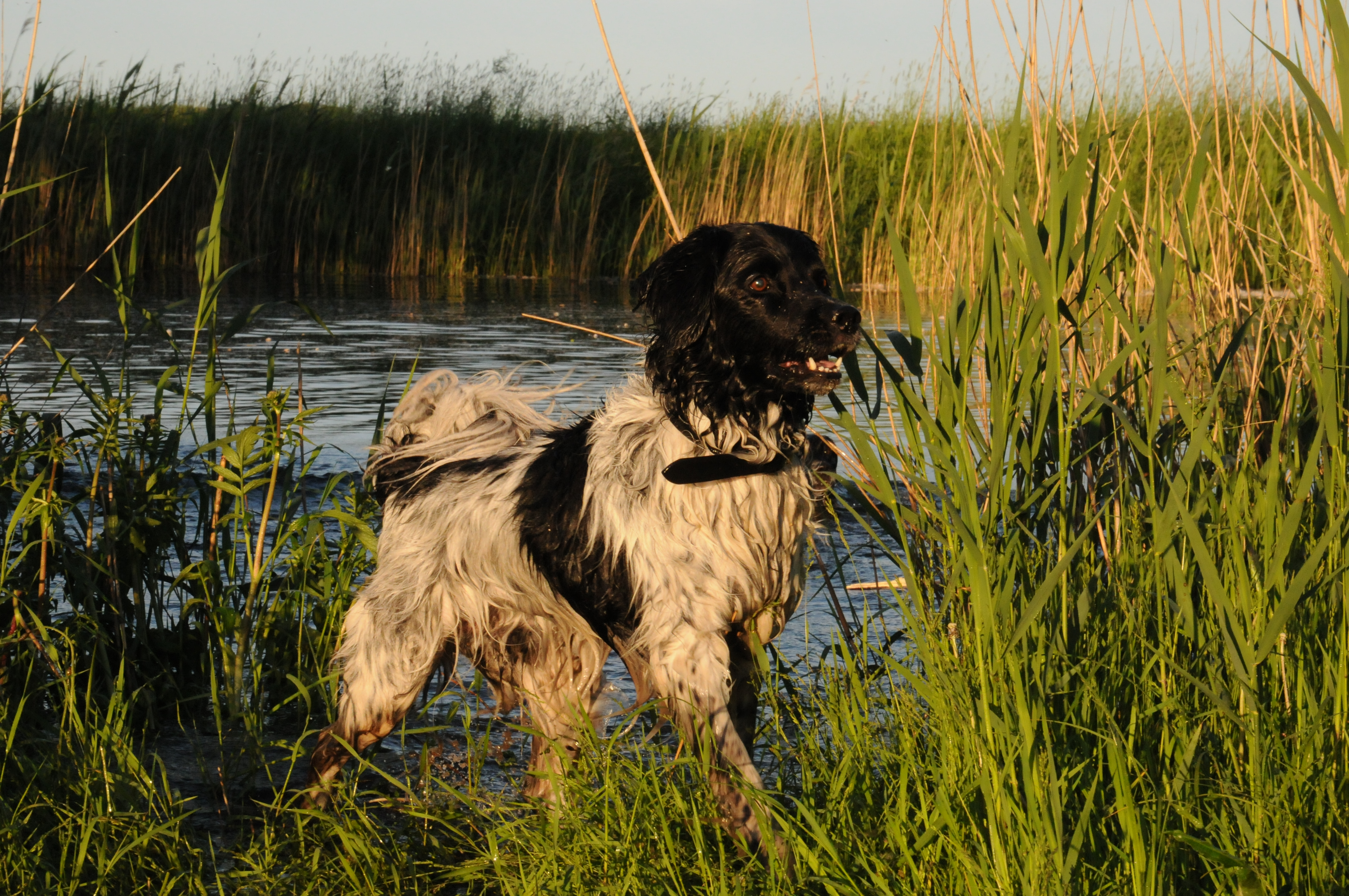 Frisian Staby. 9 year old Dutch dog. Dobber fan it Wolderhiem